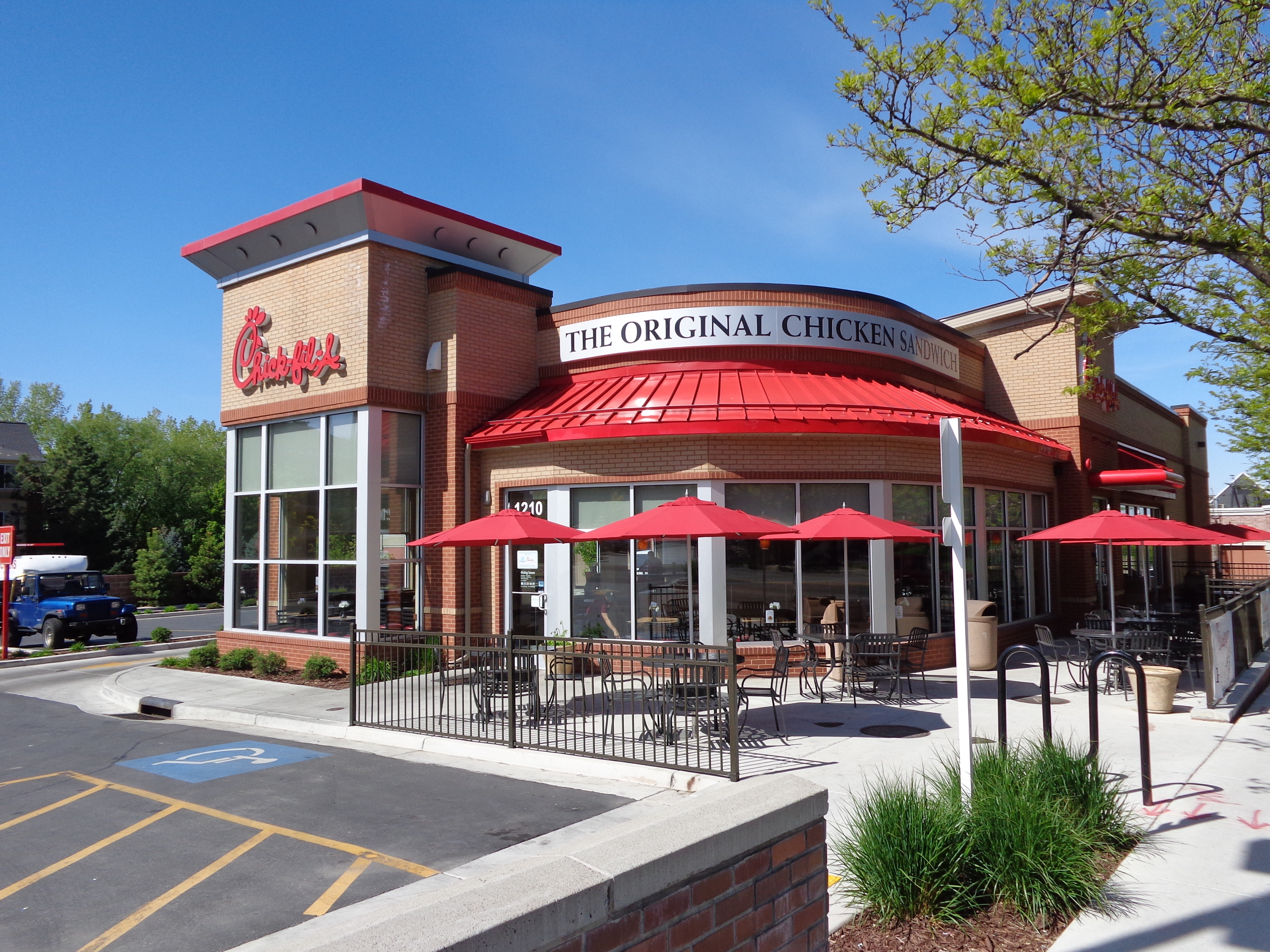 The restaurant Chick-Fil-A in Sugar House neighborhood in Salt Lake City, Utah, USA in May 2014.